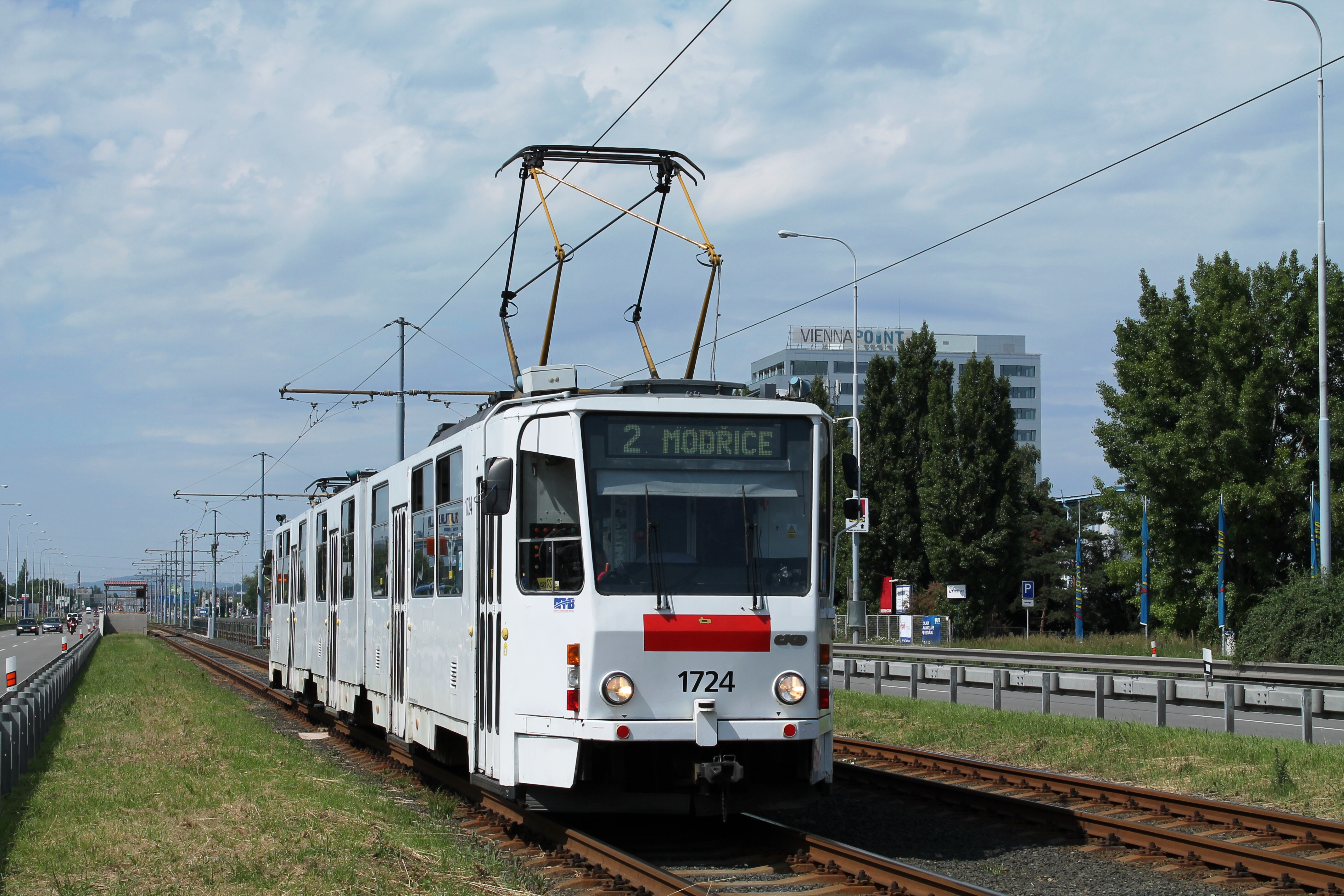 Tatra KT8D5SU tram No. 1724, Brno, Czech Republic